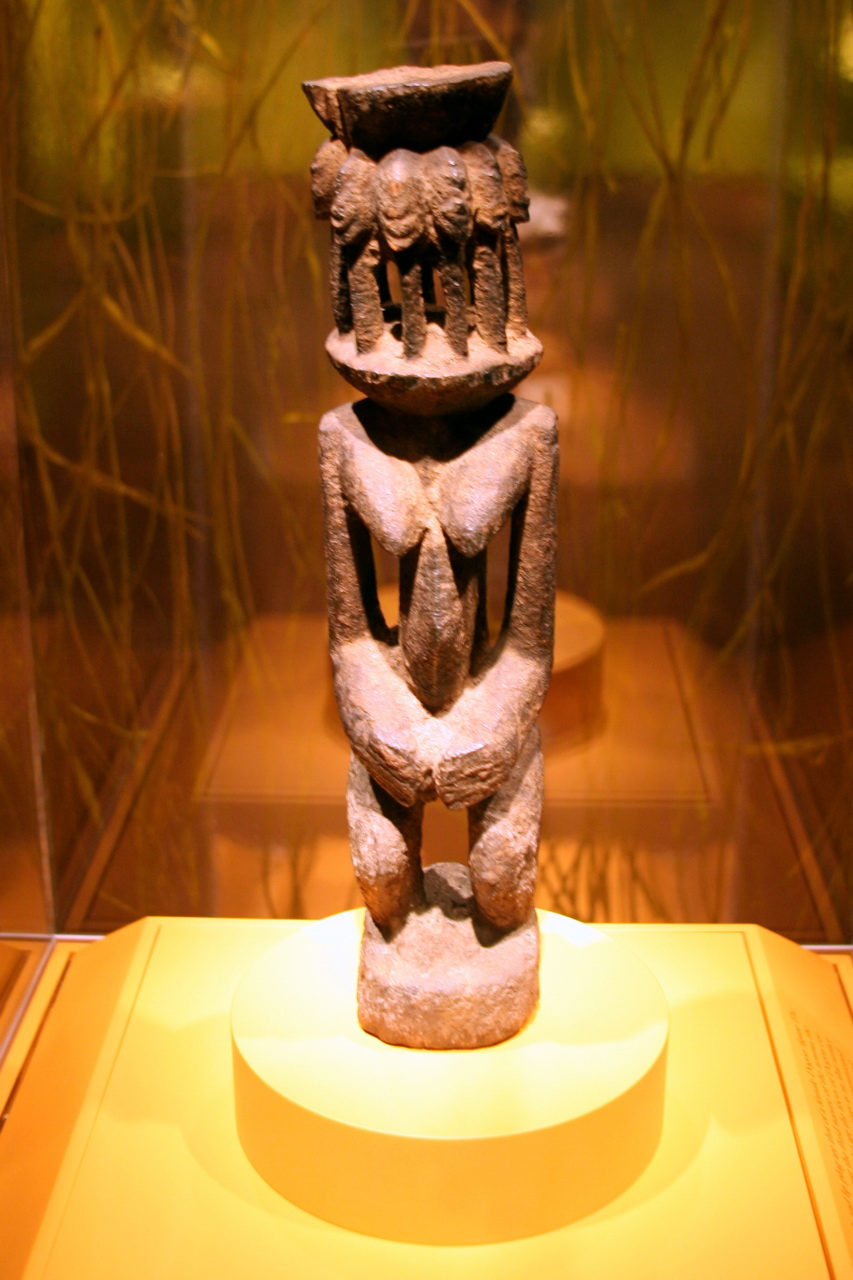 Female figure, Dogon peoples, Mali, 19th to early 20th century, Wood, encrustation The body and lip plug are that of a female Dogon figure. The multiple heads suggest the fluid nature of the nommo, the primordial spiritual beings that are the focus of Dogon cosmology. The disk on top of the heads serves as an altar surface for libations. This type of figure may have been commissioned to defend the family (the heads are gazing in all directions) and testify to the value of family harmony. The dots of red, white and black pigment on the backs of the figures and on the center post are unusual. While Dogon masks have painted designs, figures and stools generally have encrusted or eroded surfaces indicative of ritual use. (National Museum of African Art)